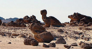 ديناصور ضخم